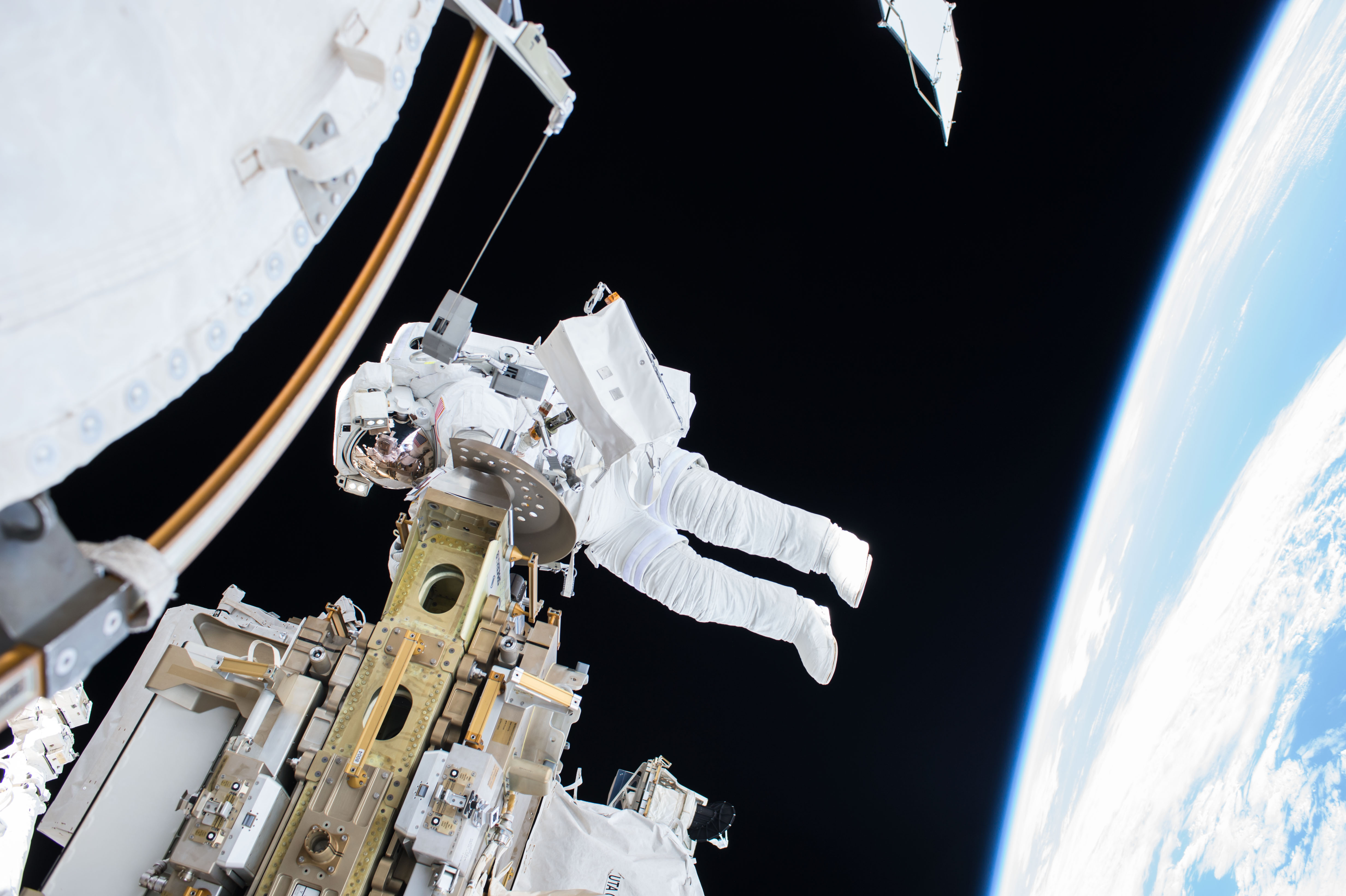 NASA astronaut is seen floating during a spacewalk on Dec. 21, 2015. NASA astronauts Scott Kelly and Tim Kopra released brake handles on crew equipment carts on either side of the space station’s mobile transporter rail car so it could be latched in place ahead of Wednesday’s docking of a Russian cargo resupply spacecraft. Kelly and Kopra also tackled several get-ahead tasks during their three hour, 16 minute spacewalk.